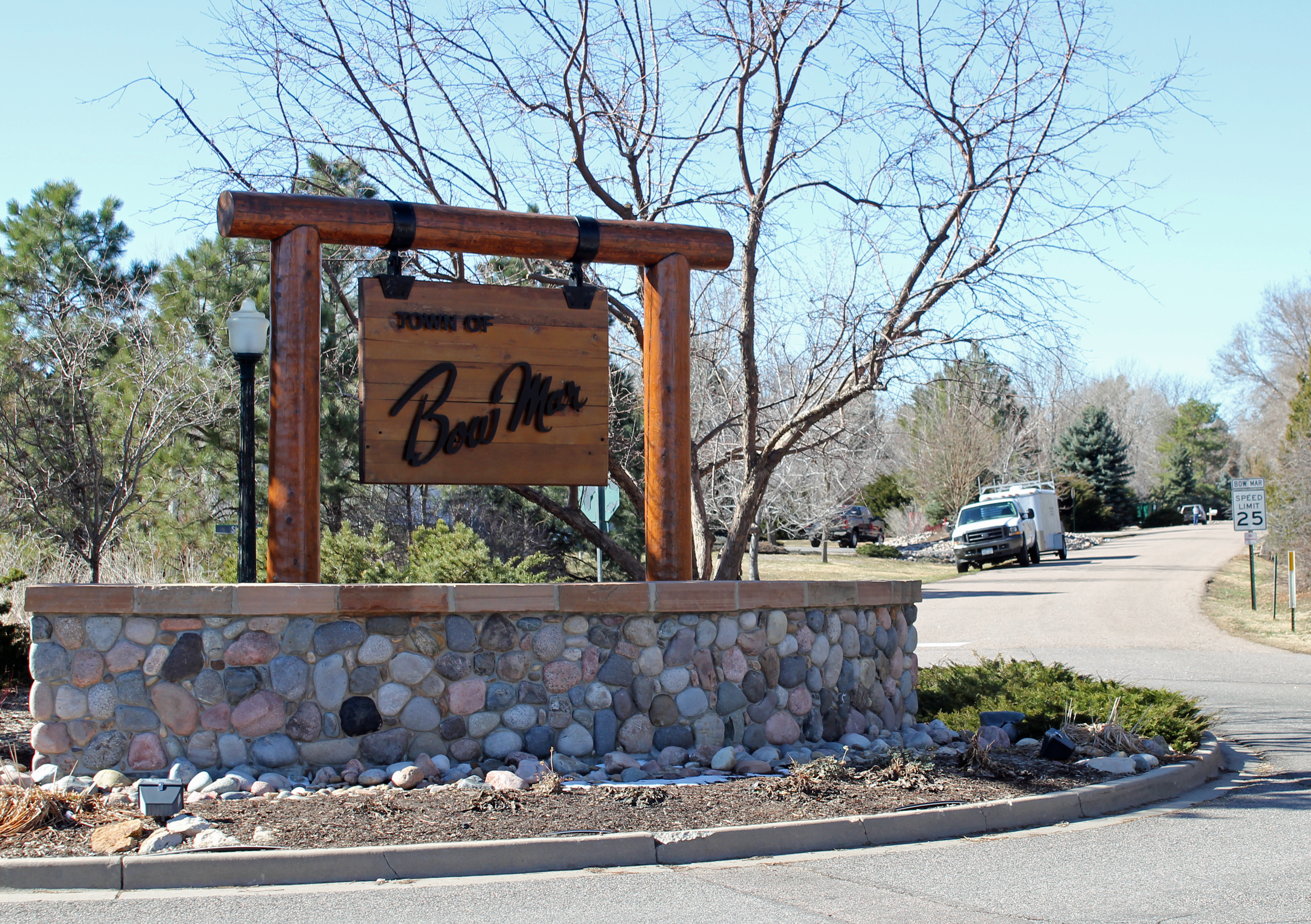 The town of Bow Mar, Colorado. This sign is located on South Sheridan Boulevard, about a block south of West Quincy Avenue.